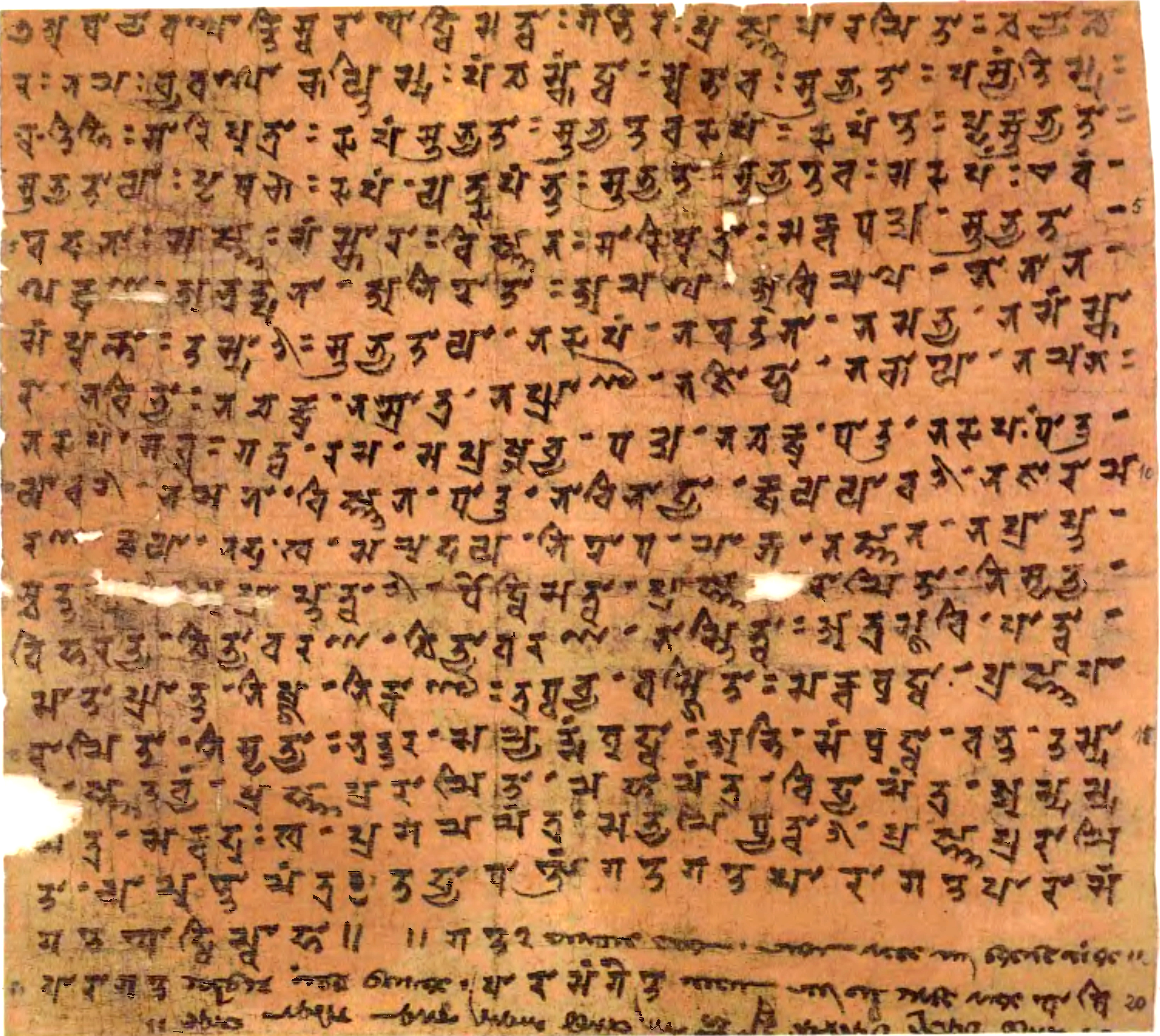 Prajñāpāramitā Hridaya Sūtra in siddham script。